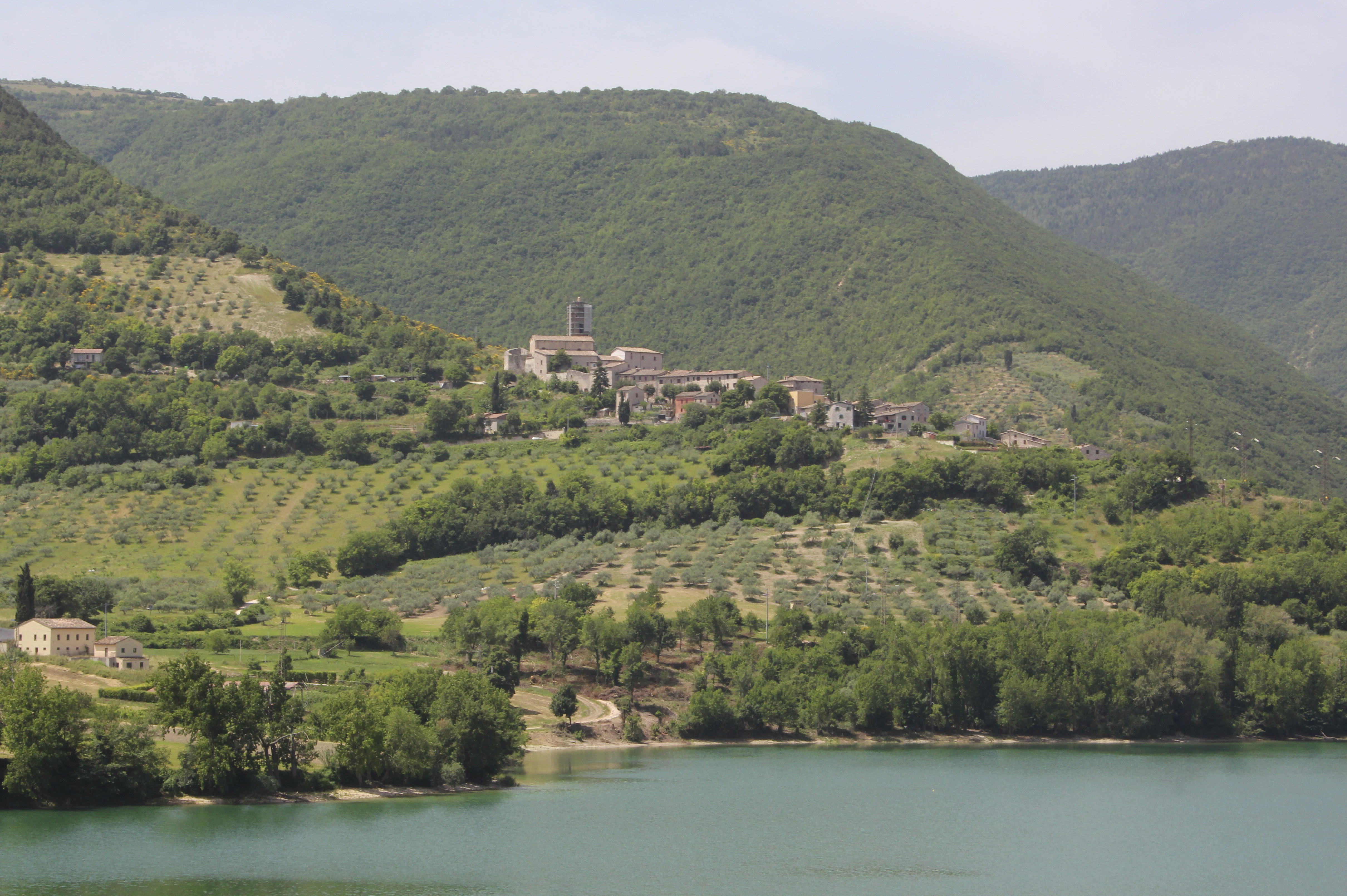 Pievefavera, hamlet of Caldarola, Province of Macerata, Marche, Italy